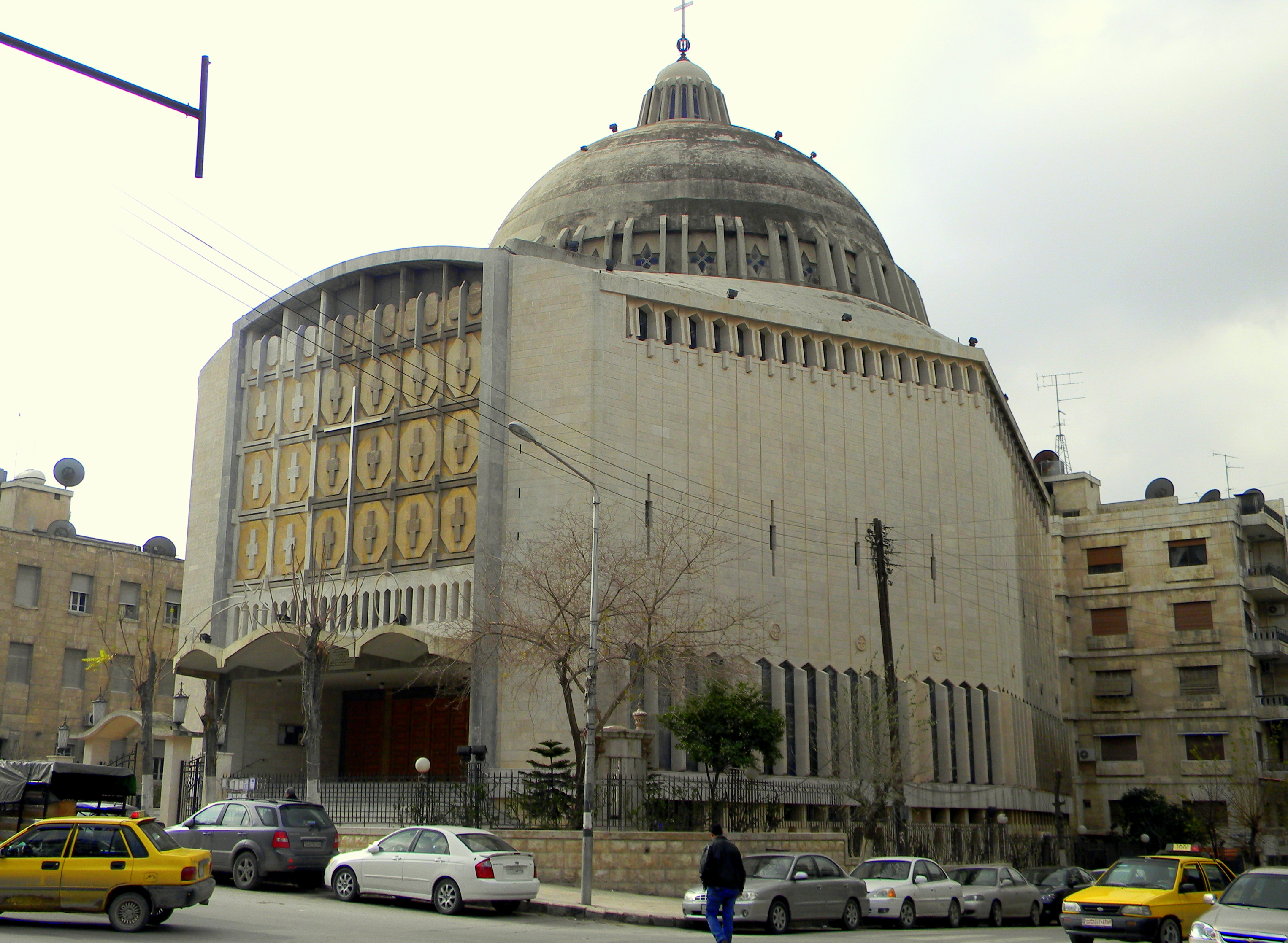 Cathedral of Our Lady of Assumption, Aleppo